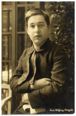 Erich Wolfgang Korngold, 1912 postcard when he was 15 years old